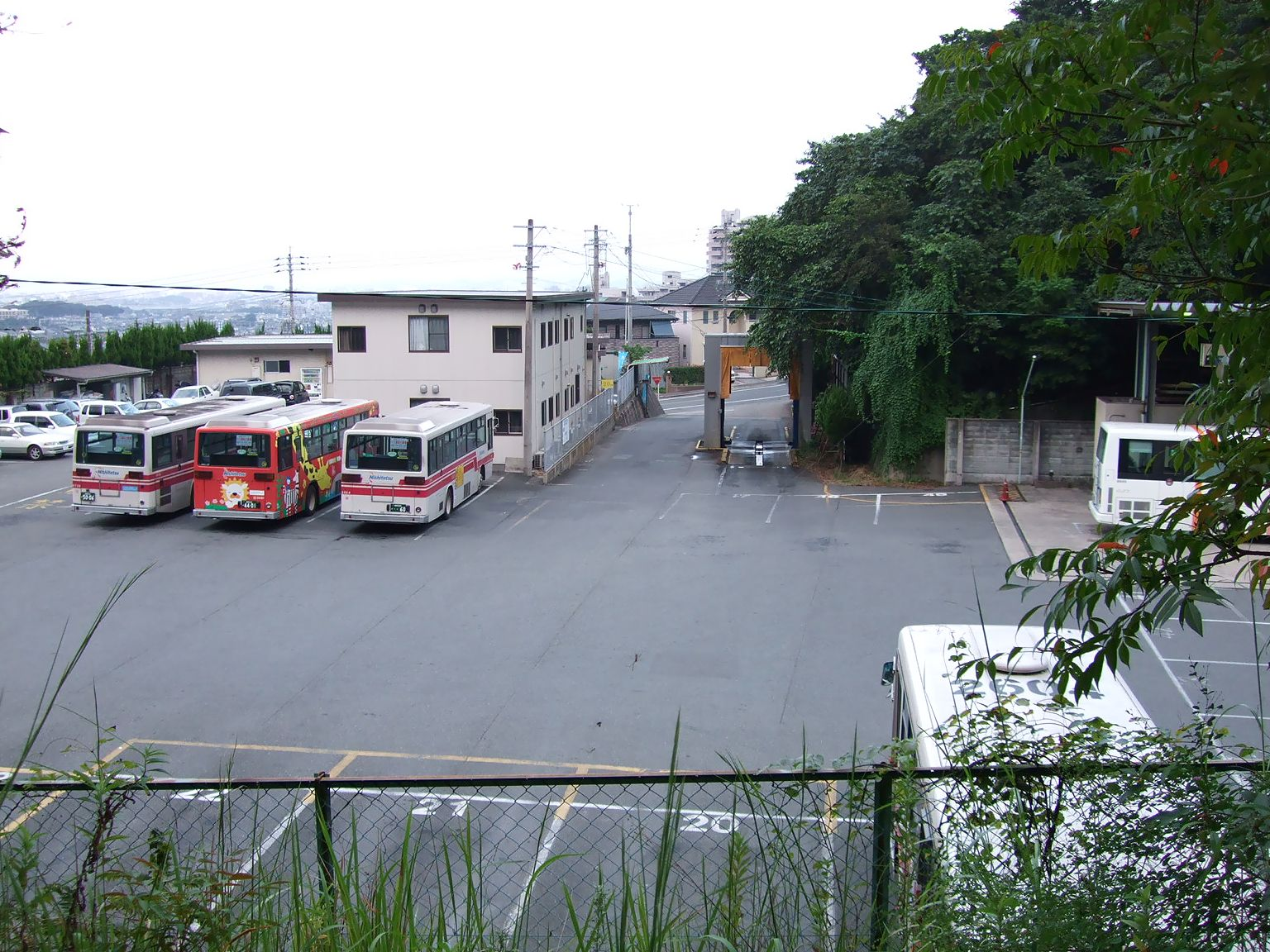 Nishitetsu bus Kashiwara Depot